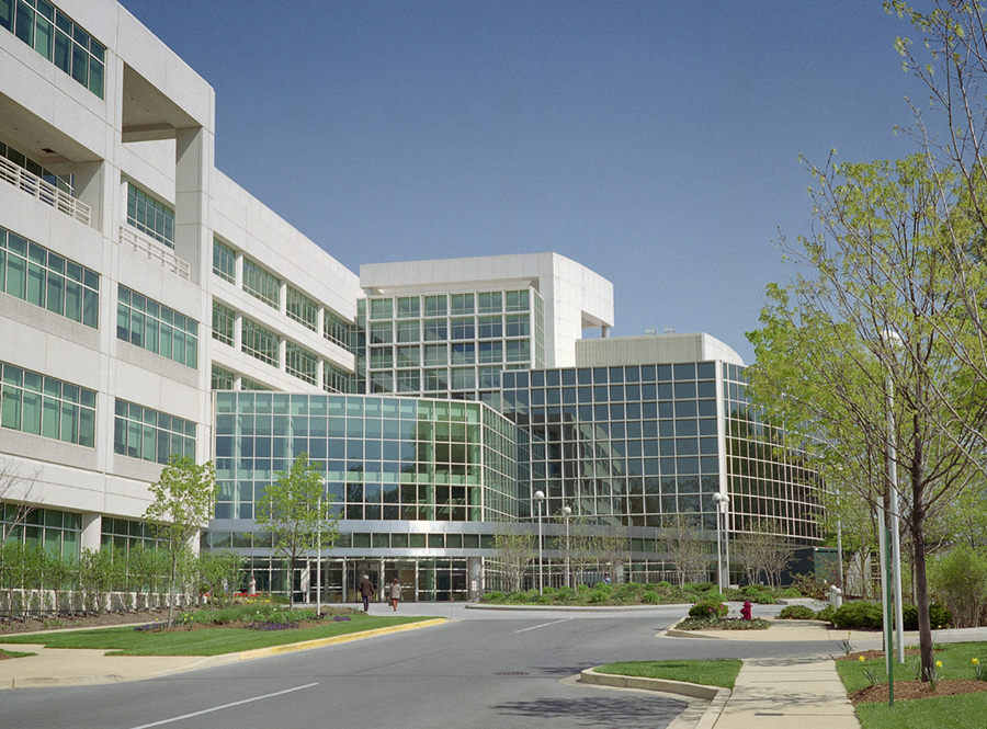 National Archives at College Park (a.k.a. "Archives II"), located in College Park, Maryland, USA. It opened in 1994 to mainly preserve photographs and graphic images. It is adjacent to the University of Maryland College Park campus.